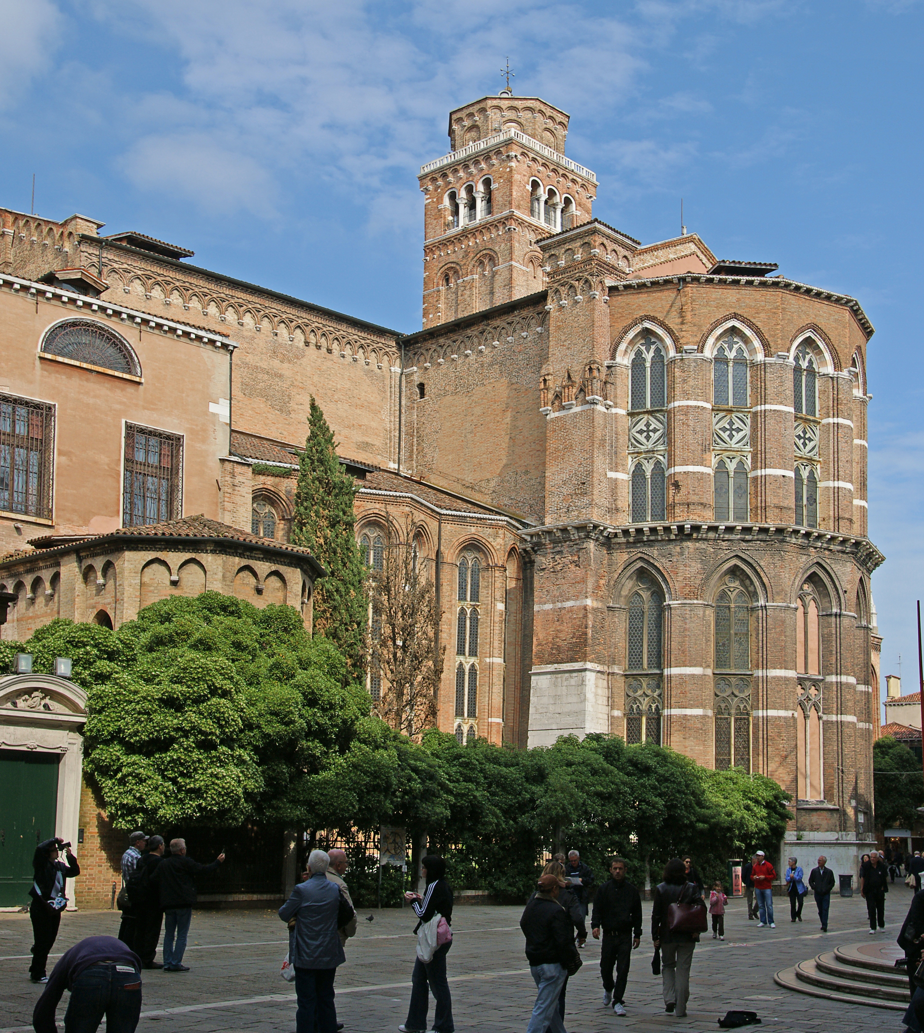 Venice – Basilica di Santa Maria Gloriosa dei Frari - Abside